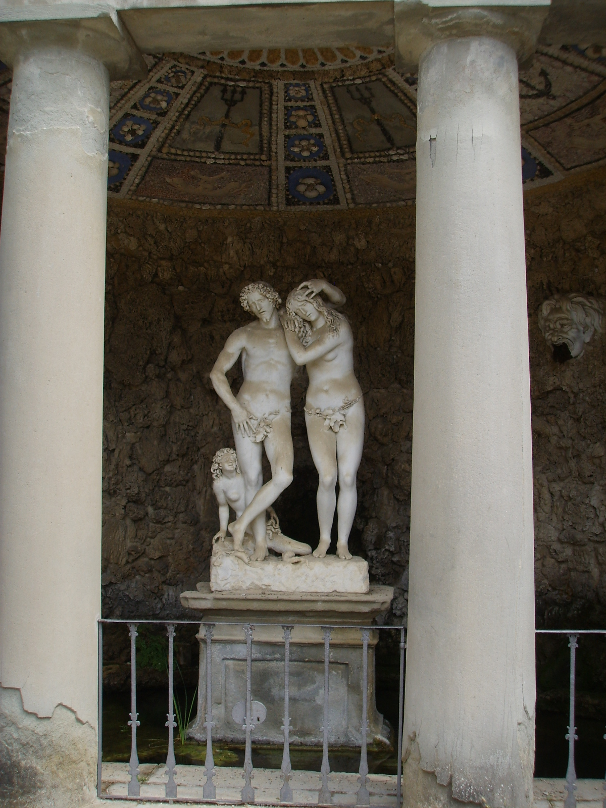 See filename, sculptures by Michelangelo Naccherino